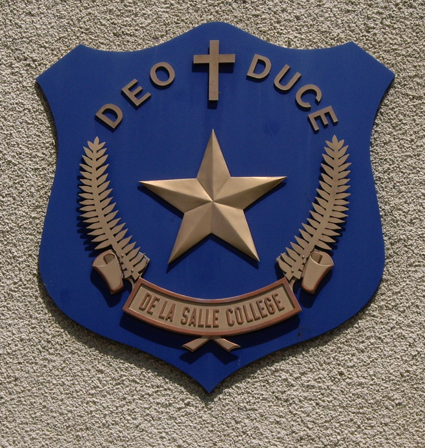 Photograph taken by VirtualSteve. Full catalogue of all my images uploaded to Wikipedia available here Images